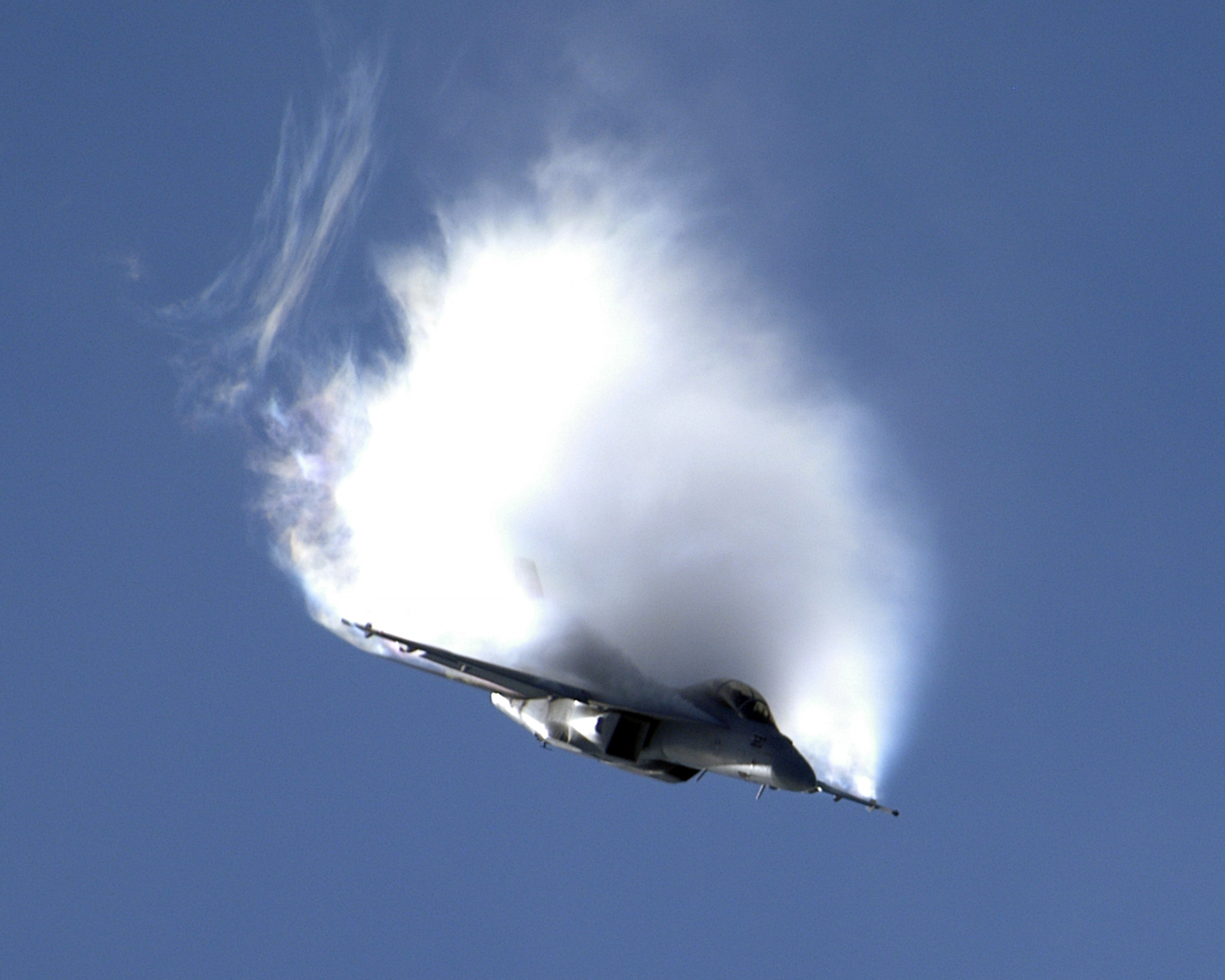 An F/A-18F Super Hornet assigned to the "Flying Eagles" of Strike Fighter Squadron One Two Two (VFA-122), pulls a high-G maneuver as it dives for show center causing large amounts of condensed water to appear above its wings at the 2004 "In Pursuit of Liberty," Naval Air Station Oceana Air Show. The Super Hornet was painted in the colors of the "Jolly Rogers" of Fighter Squadron One Zero Three (VF-103), which will transition to the new aircraft after their current deployment.